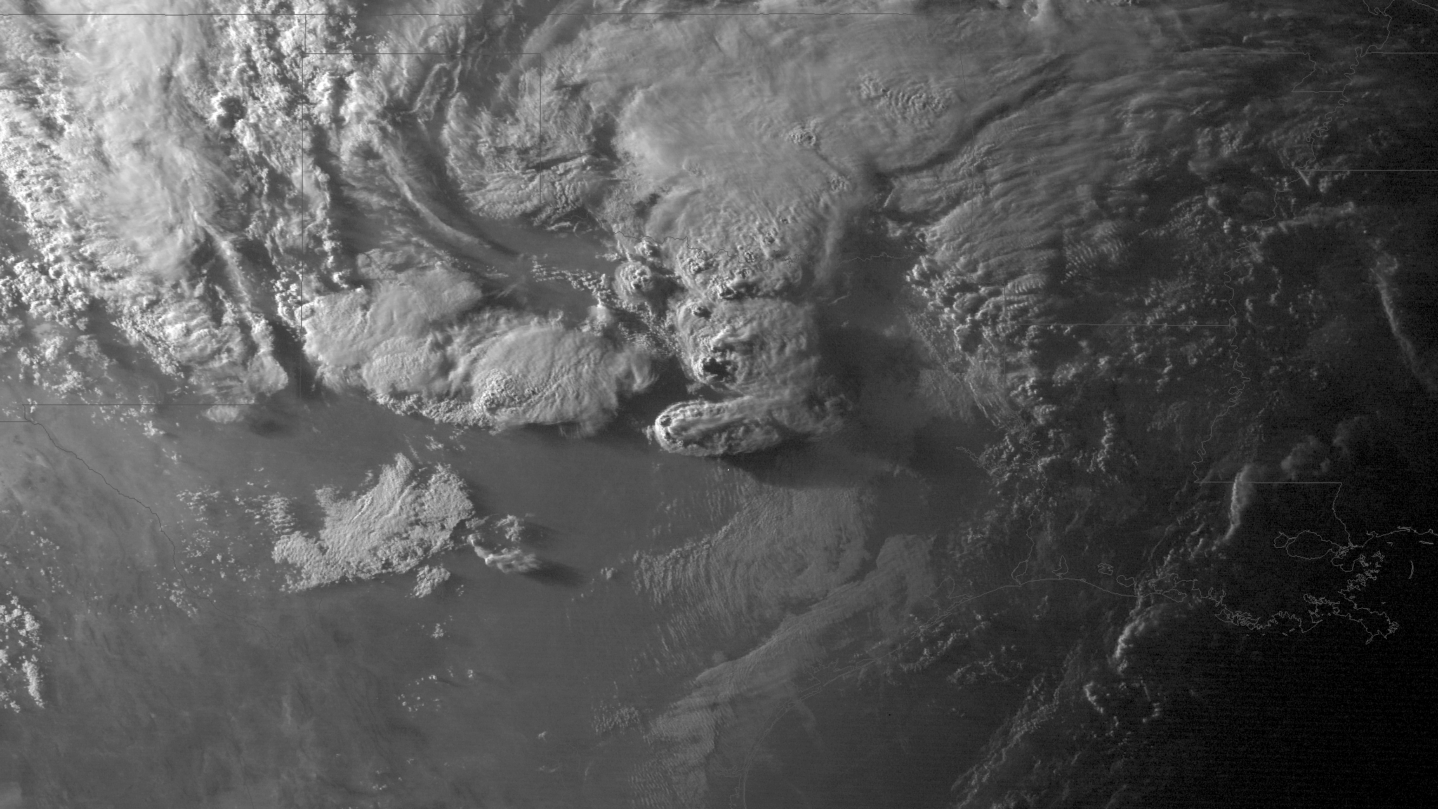 From the NNVL: This image of Texas taken by the GOES East satellite at 0045Z on May 16, 2013 shows the vicinity around Granbury, TX approximately 21 minutes before the NOAA NWS Storm Prediction Center received a tornado report, at 0106Z.